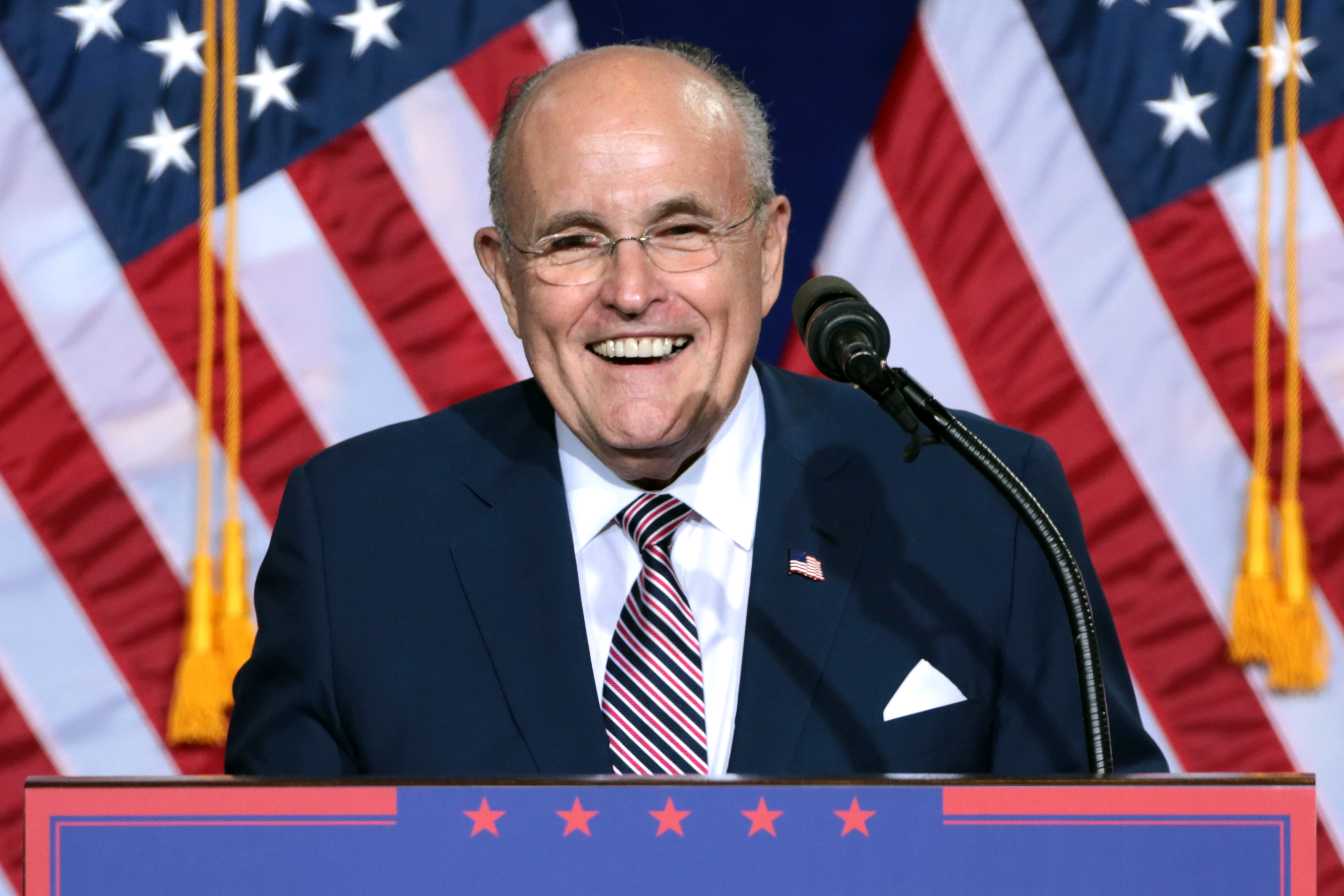 Former Mayor Rudy Giuliani of New York City speaking to supporters at an immigration policy speech hosted by Donald Trump at the Phoenix Convention Center in Phoenix, Arizona.